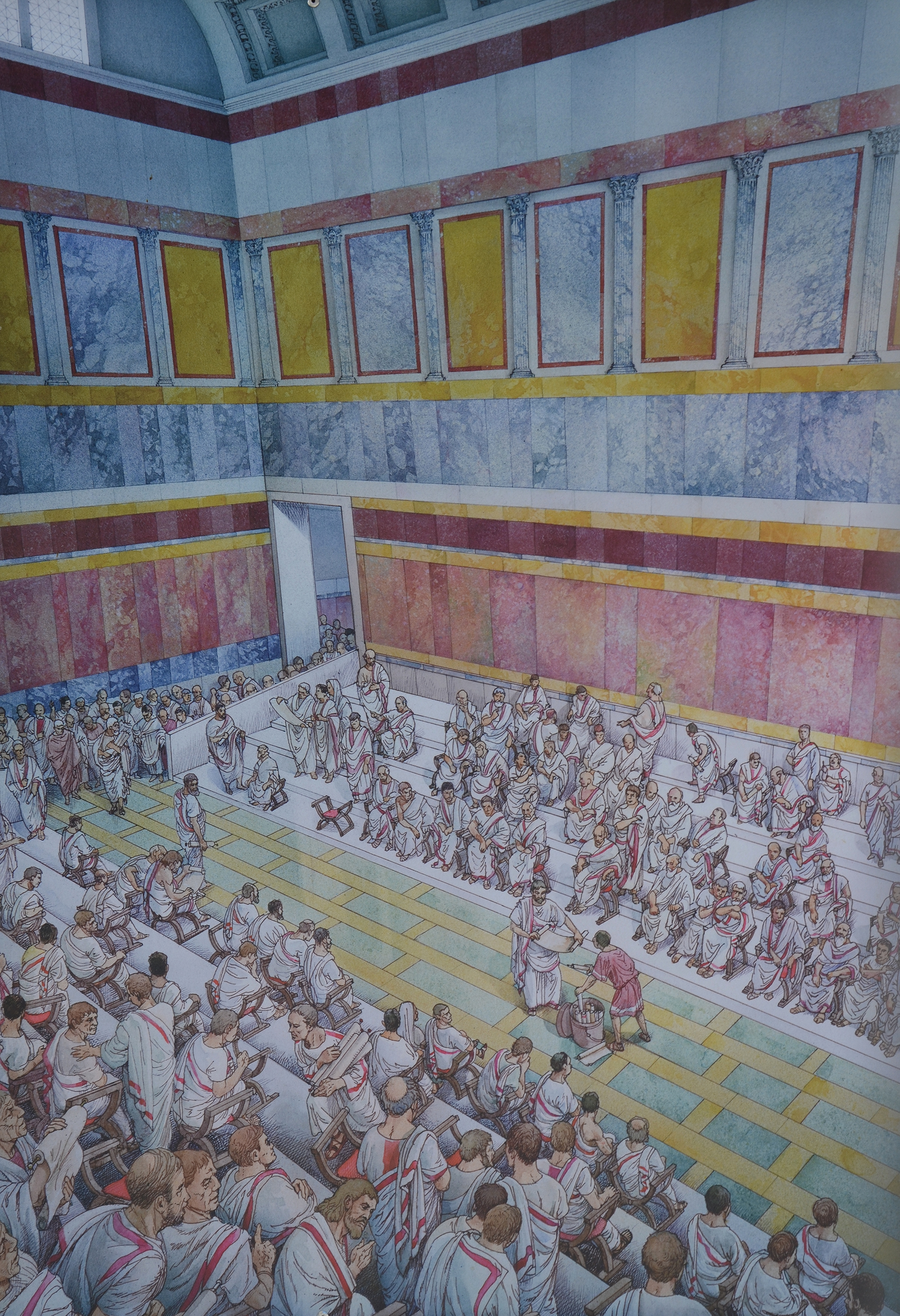 It had three rectangular rooms in which poets, philosophers, authors and rhetoricians recited their work and taught lessons to audiences of up to 900 people.